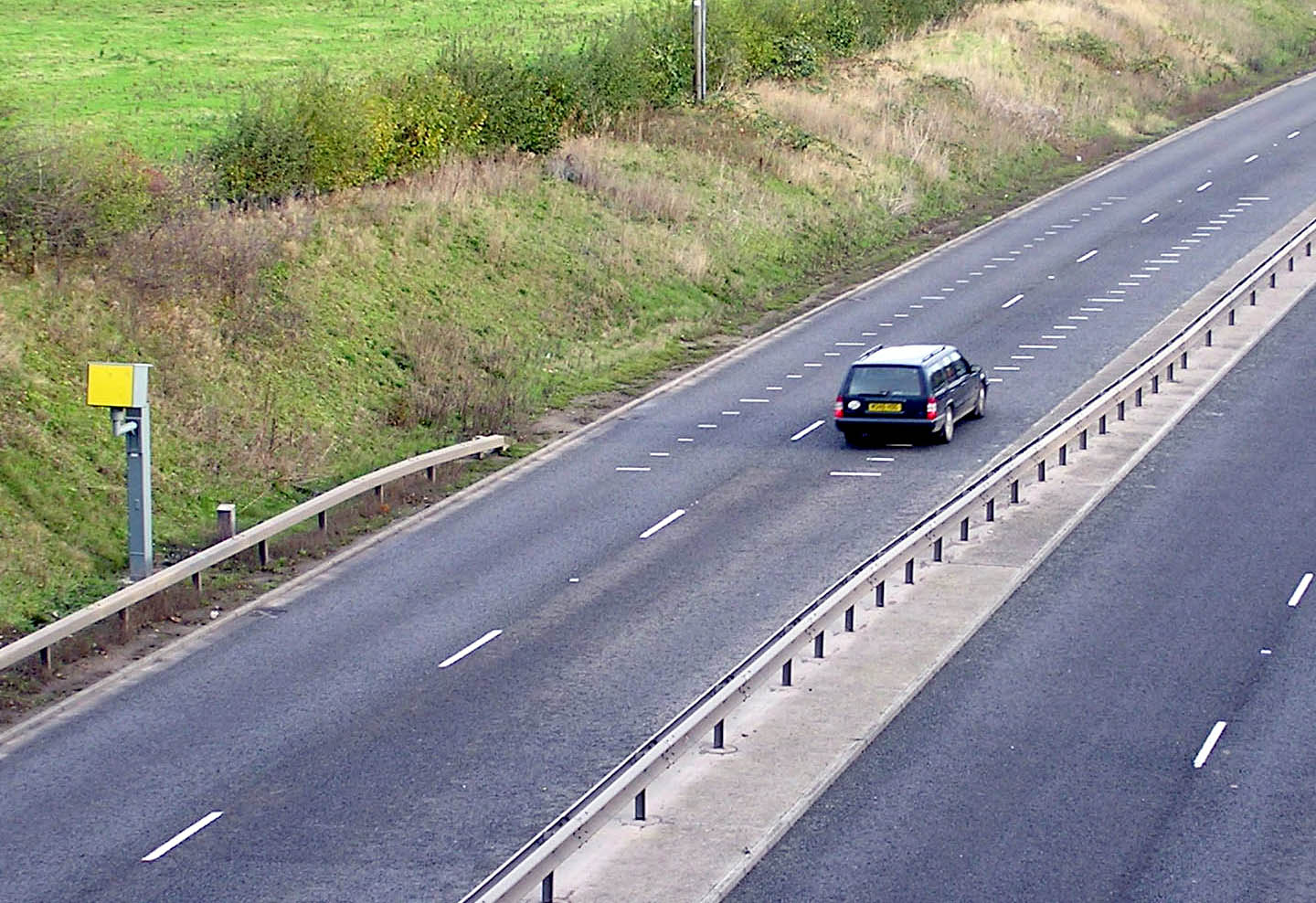 Gatso speed camera and road calibration markings at Bathampton, Bath, England. These markings will appear on the photographs the camera takes, and can be used to calculate the exact speed of the vehicle in the event of a dispute. Photographed by Adrian Pingstone in November 2005 and released to the public domain.